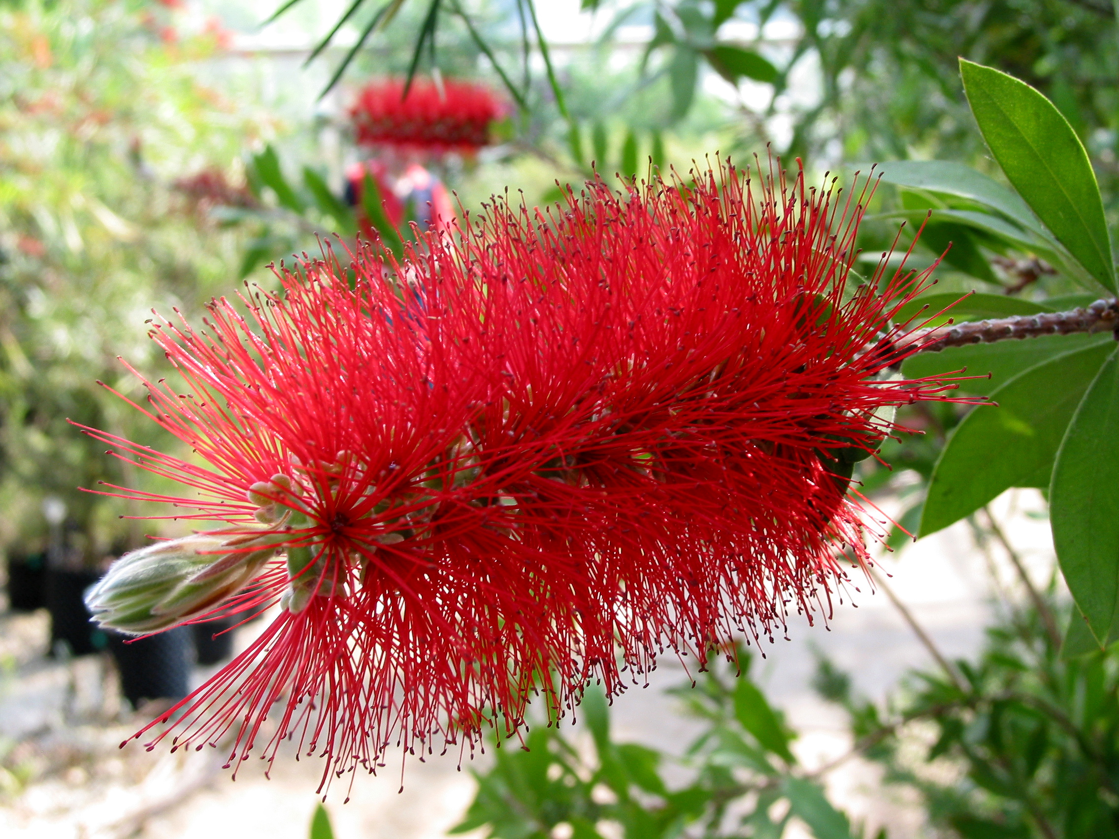 Crimson Bottlebrush (Callistemon citrinus)